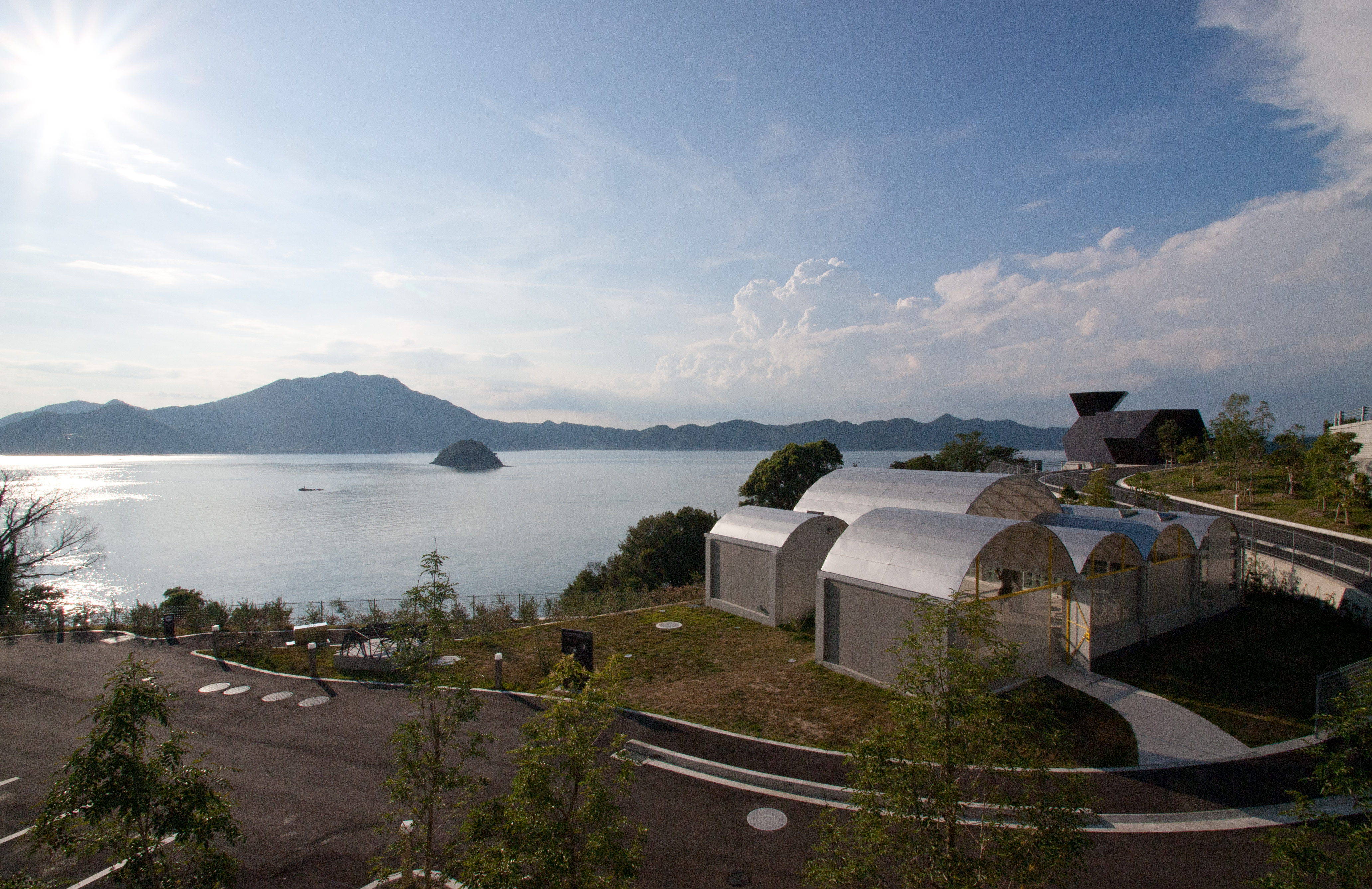 Toyo Ito Museum of Architecture in Imabari, Ehime pref., Japan.